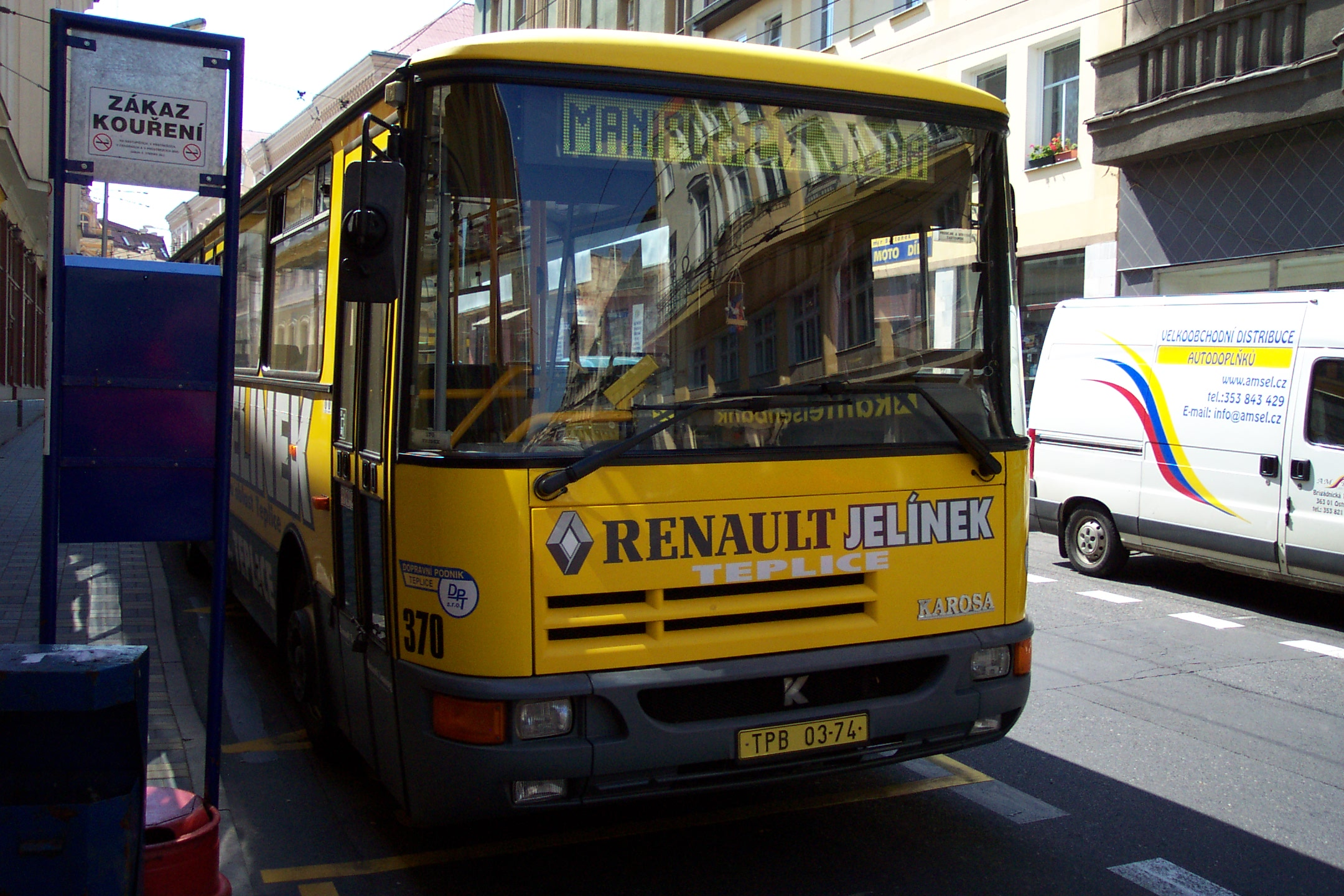 Teplice, Czech republic, bus type Karosa B 932E